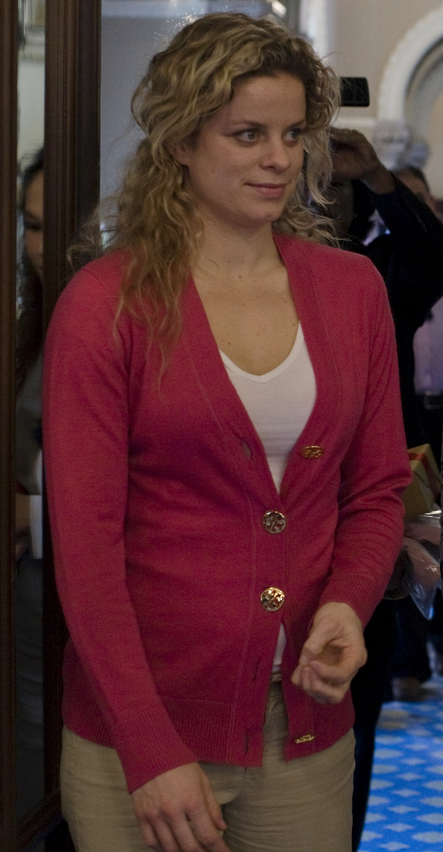 Kim Clijsters in Thailand, 2010